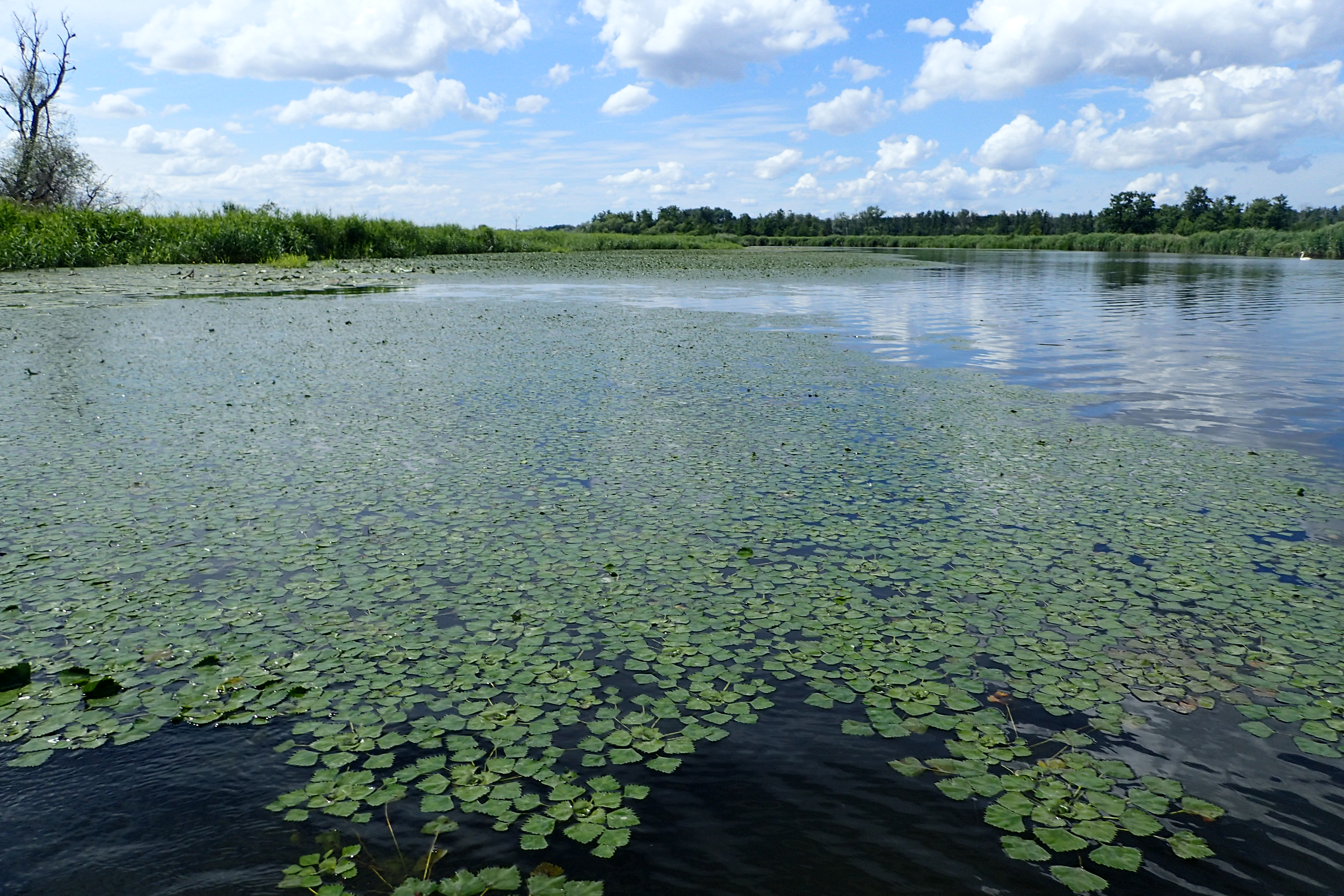 Trapa natans in Obnica Północna (arm of Oder river) near Szczecin Podjuchy, NW Poland